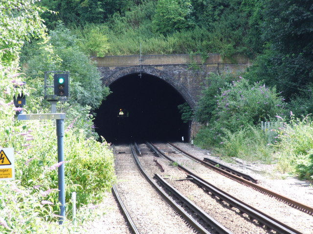 Higham to Strood rail tunnel Before the railway, this tunnel was used for the Thames Medway canal.